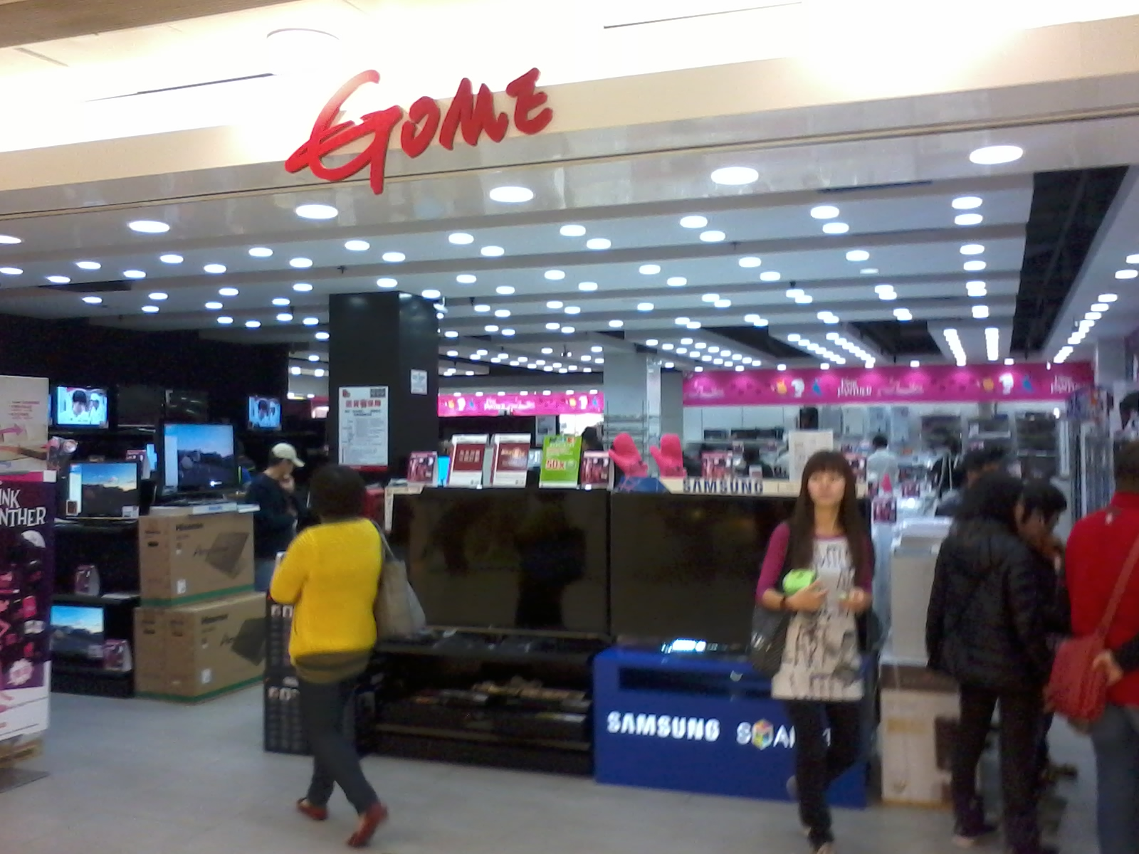 大埔超級城, Tai Po Mega Mall, Tai Po Centre, Tai Po, Hong Kong